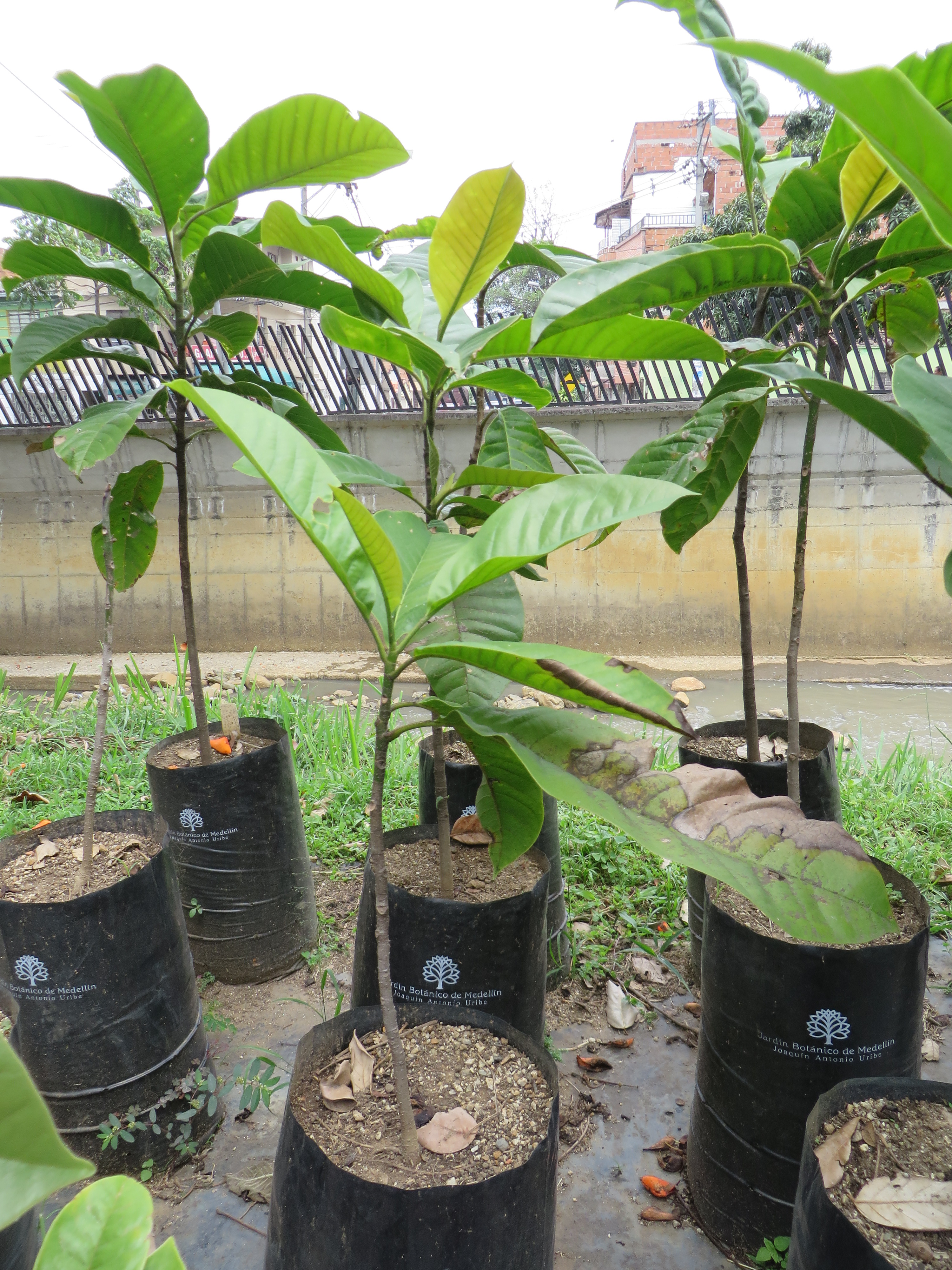 Seedlings of Magnolia jardinensis